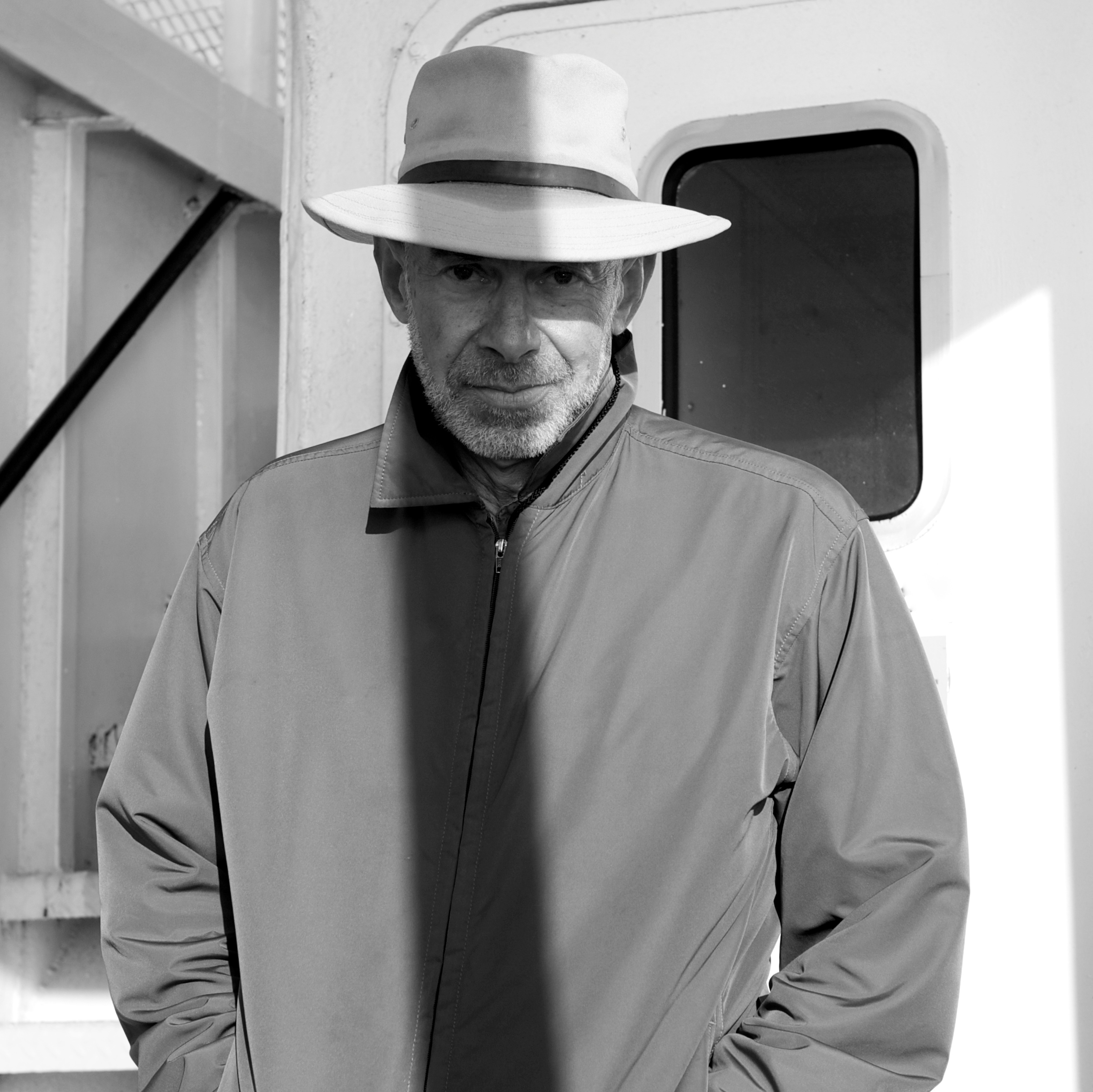 Norman Mauskopf is an award-winning American documentary photographer who has published three books.